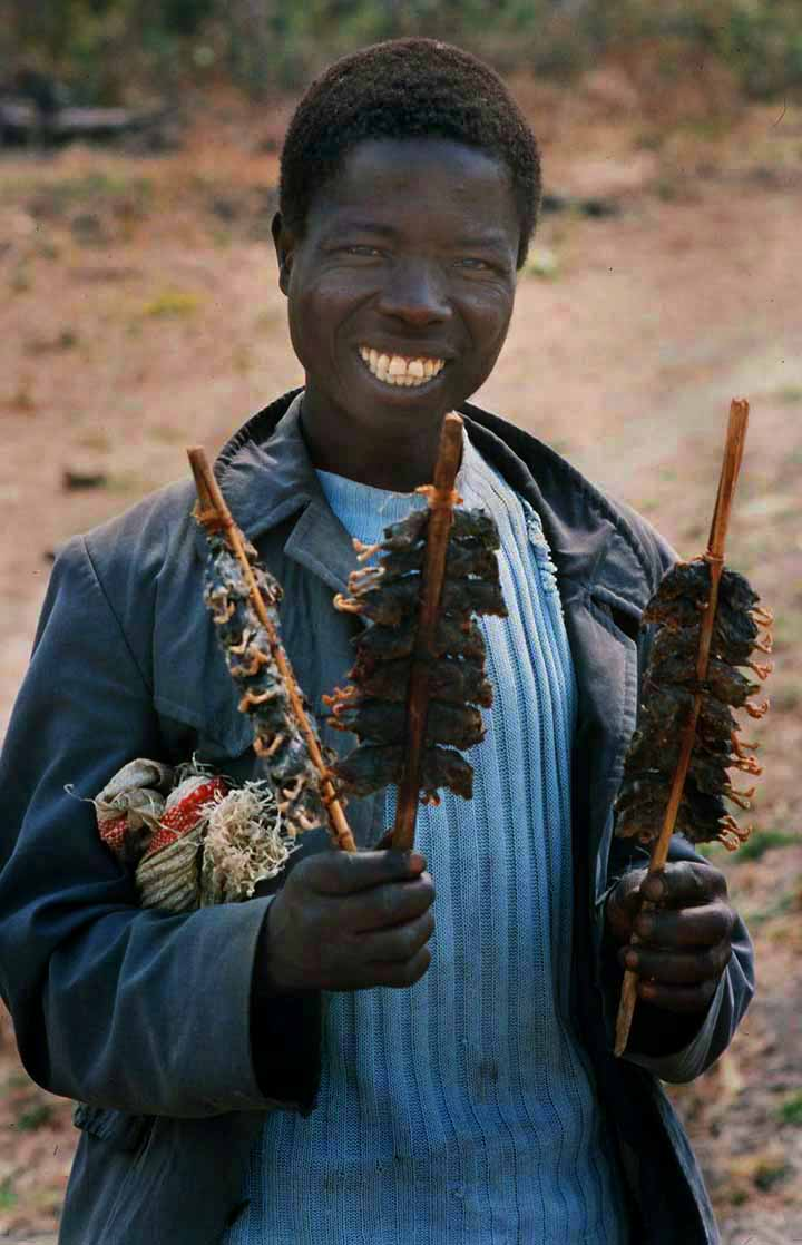 Malawi: Roasted Mice!